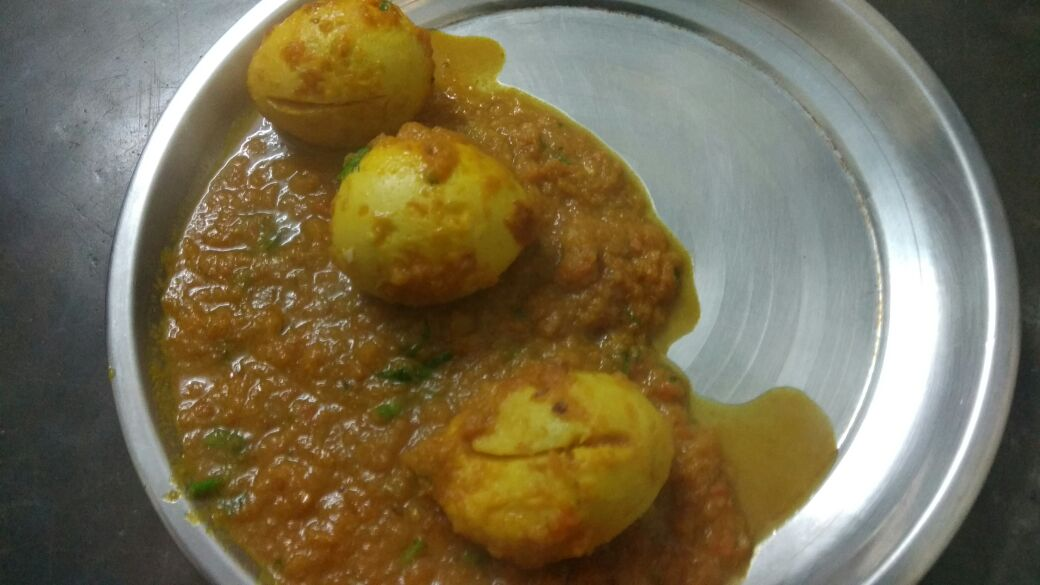 Boiled and Deep fried eggs cooked with thick paste of herbs and spices like onions, tomato, green chilly paste, garlic, ginger